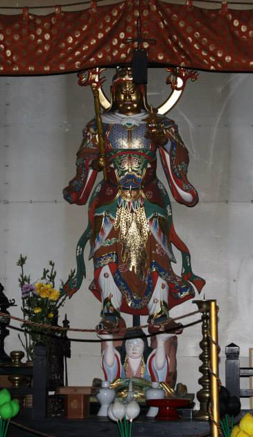 Tobatsu-Bishamonten (兜跋毘沙門天), Chōsui-Temple (Chōsui-ji), Fukuoka, Japan